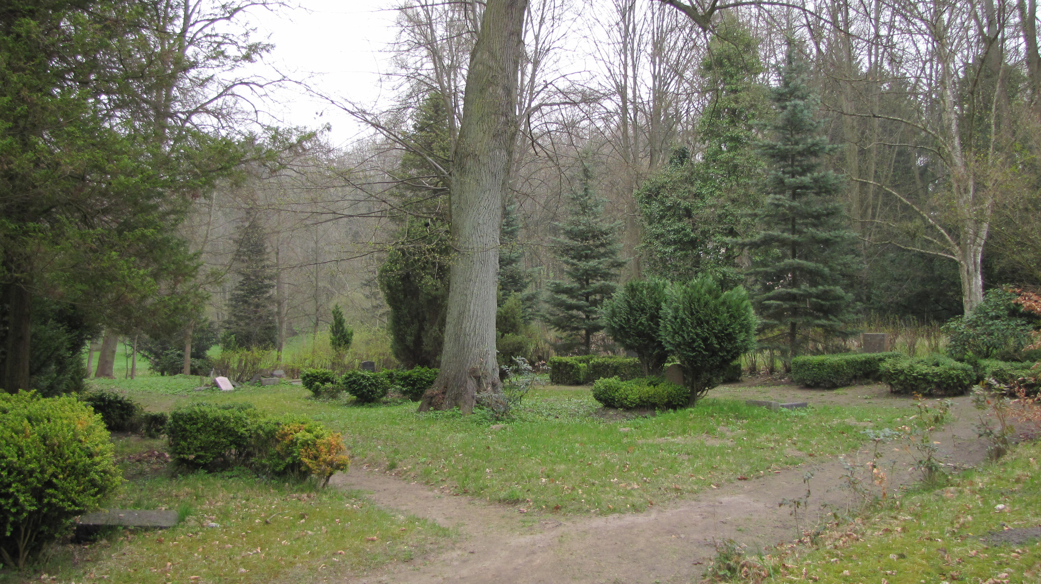 Sachsenberg (Schwerin)